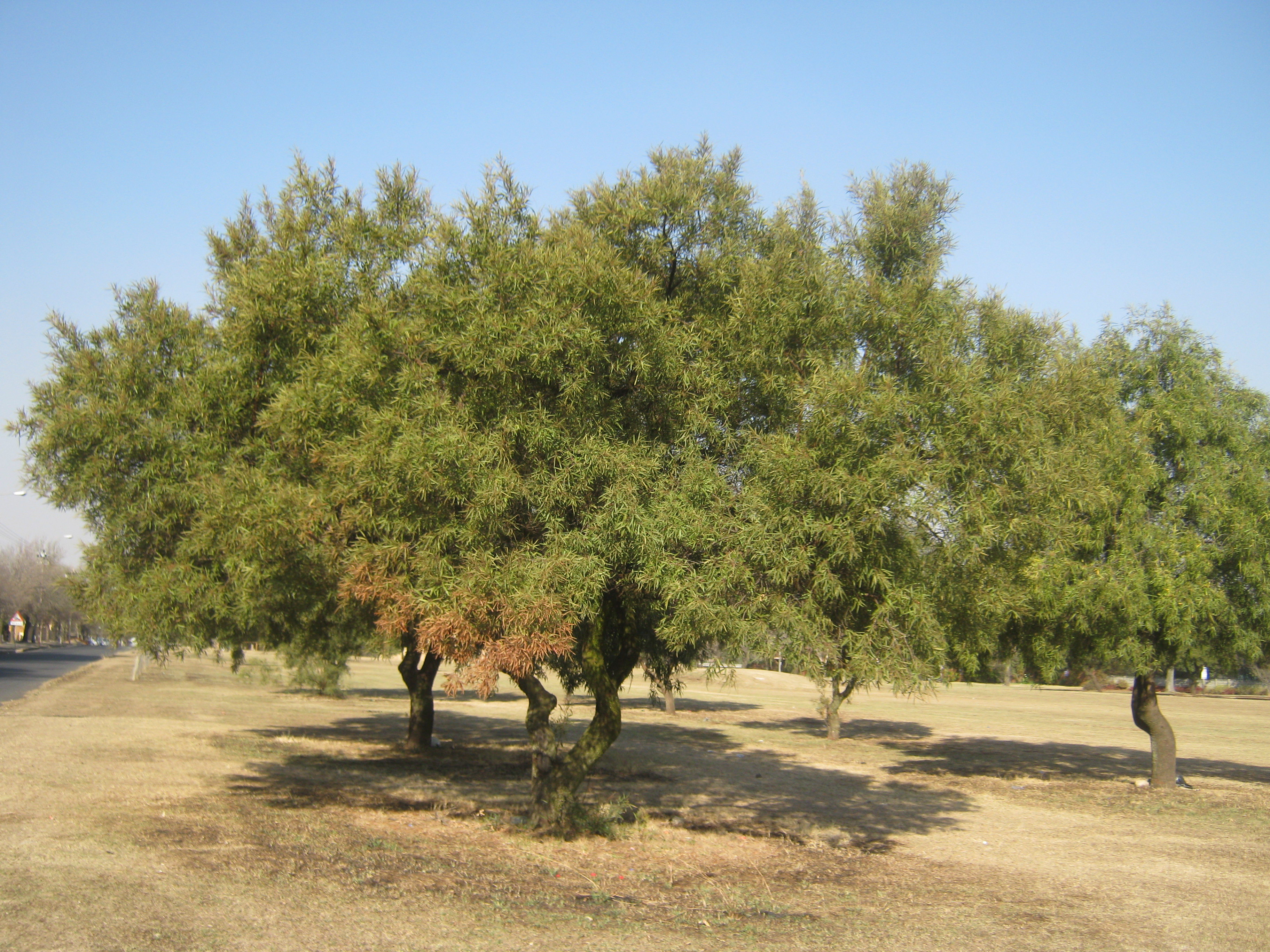 A cluster of karee trees growing in an open field in Germiston, Gauteng.